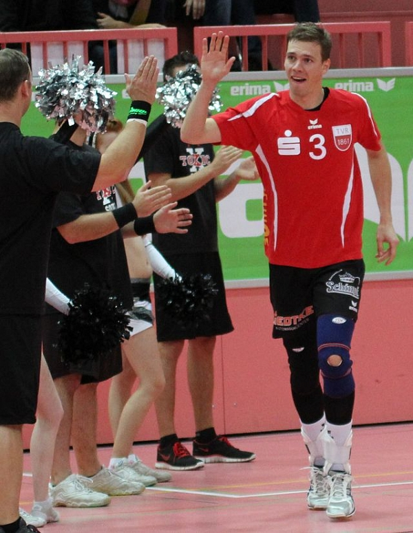 the German volleyball player Michael Neumeister, playing for TV Rottenburg